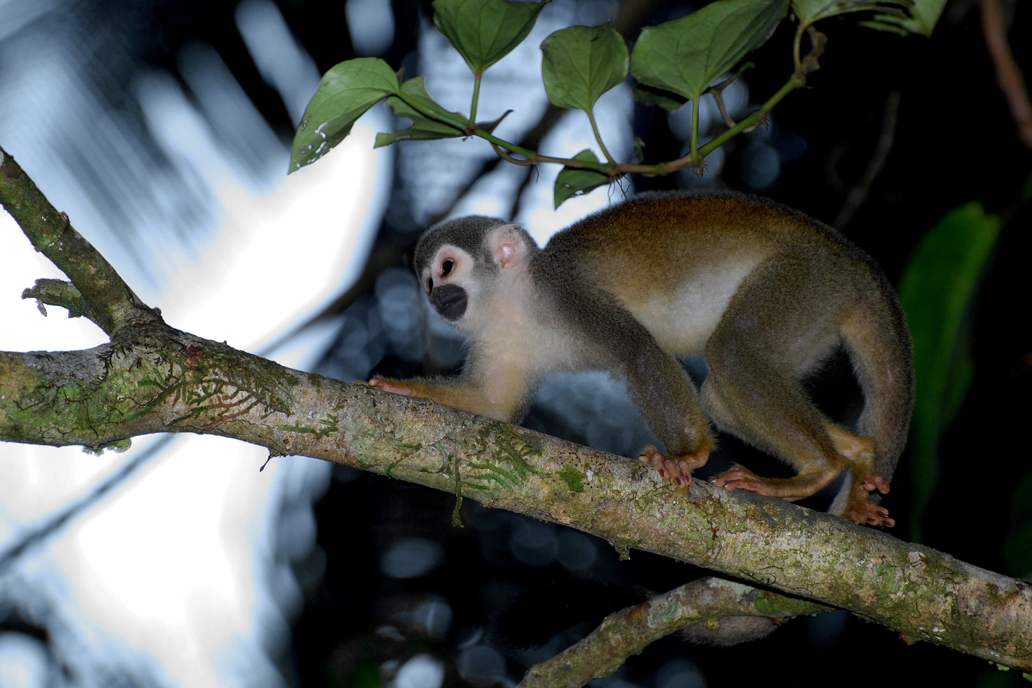 Squirrel monkey (Saimiri sciureus), Amazonia, Ecuador.